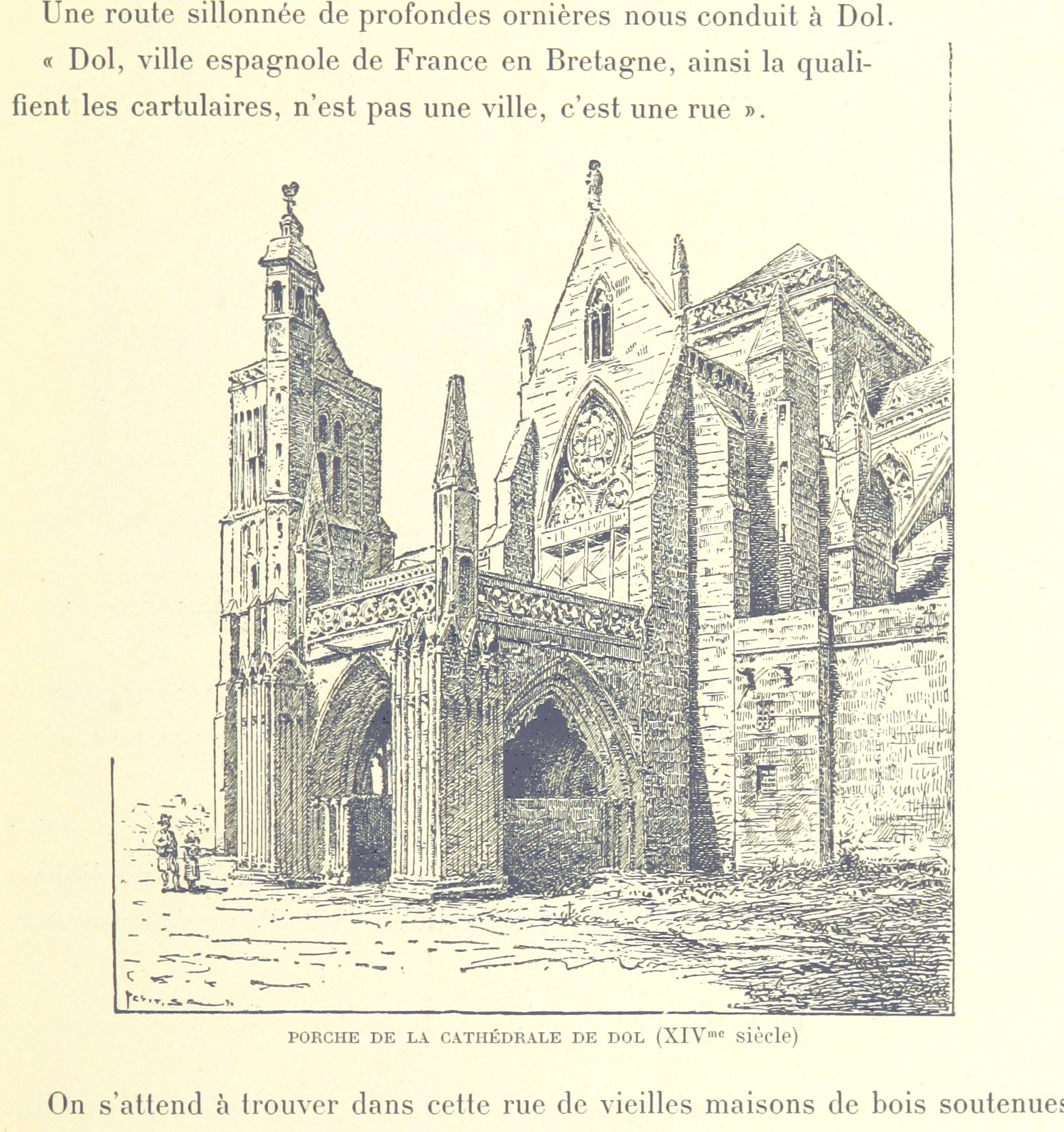 Image taken from: Title: "Zig-Zags en Bretagne, etc. [Illustrated.]" Author: DUBOUCHET, H. - and (Gustave) Contributor: DUBOUCHET, Gustave. Shelfmark: "British Library HMNTS 10172.i.22." Page: 65 Place of Publishing: Paris Date of Publishing: 1894 Issuance: monographic Identifier: 000992037 Explore: Find this item in the British Library catalogue, 'Explore'. Download the PDF for this book (volume: 0) Image found on book scan 65 (NB not necessarily a page number) Download the OCR-derived text for this volume: (plain text) or (json) Click here to see all the illustrations in this book and click here to browse other illustrations published in books in the same year. Order a higher quality version from here.